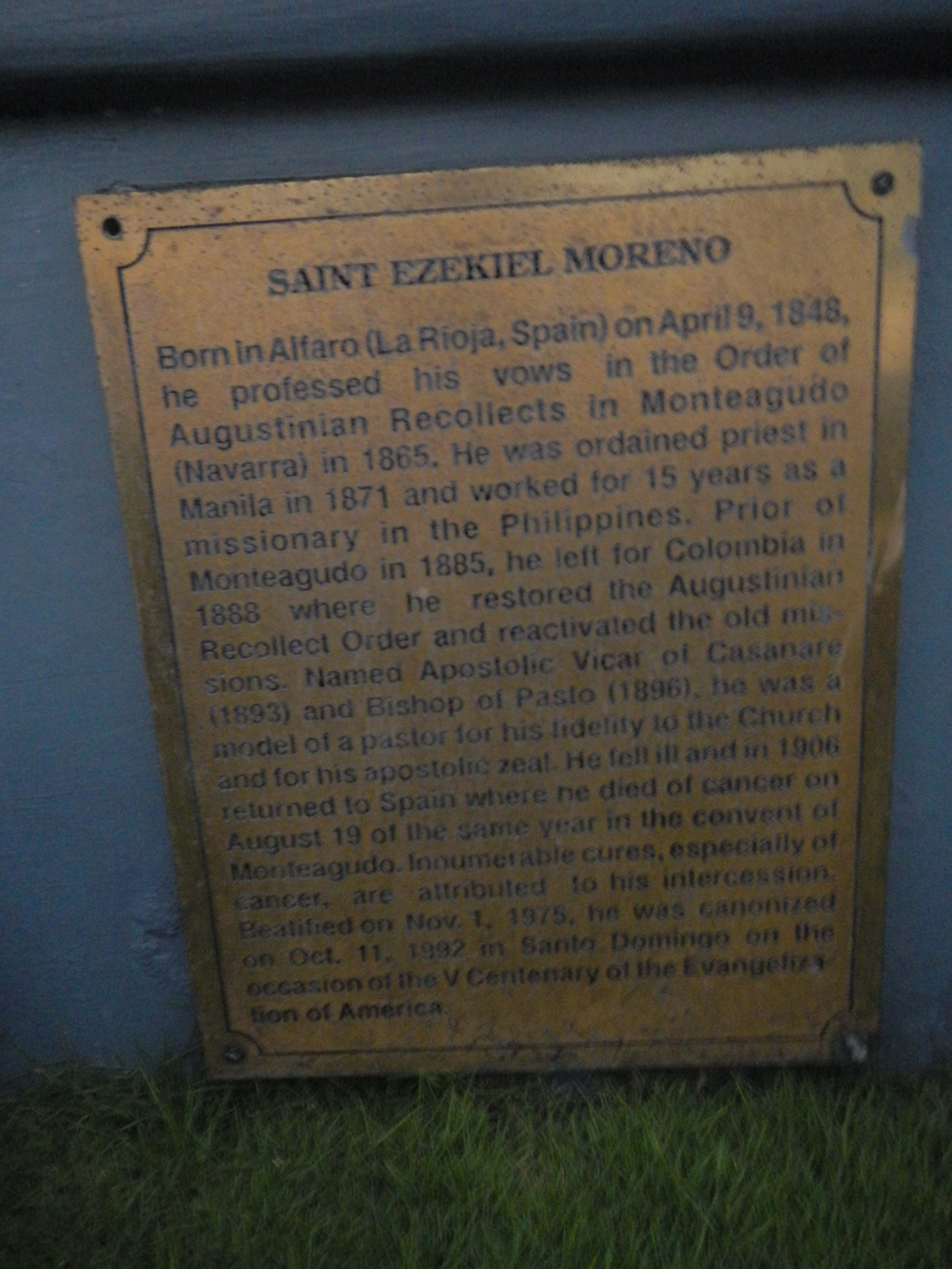 Basilica of San Sebastian, Manila[1]The Basilica Minore de San Sebastián, better known as San Sebastián Church, is a Roman Catholic minor basilica in Manila, the Philippines. It is the seat of the Parish of San Sebastian and the National Shrine of Our Lady of Mt. Carmel.[2]